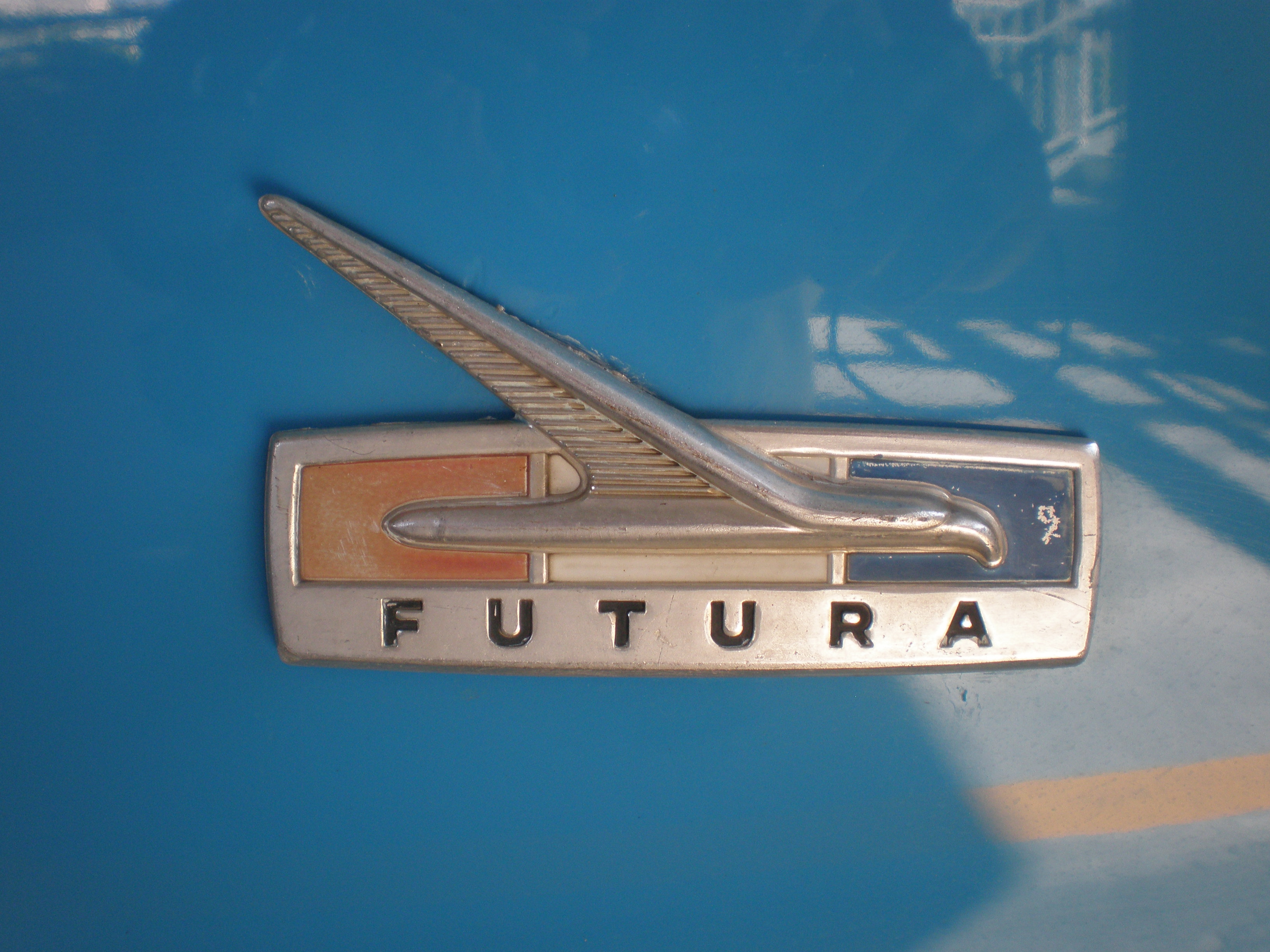 The logo of a Ford Futura Falcon (model year unknown).